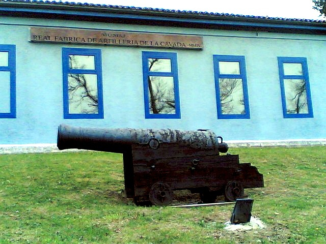 Museum of the Royal Artillery Factory at La Cavada (Cantabria, Spain)